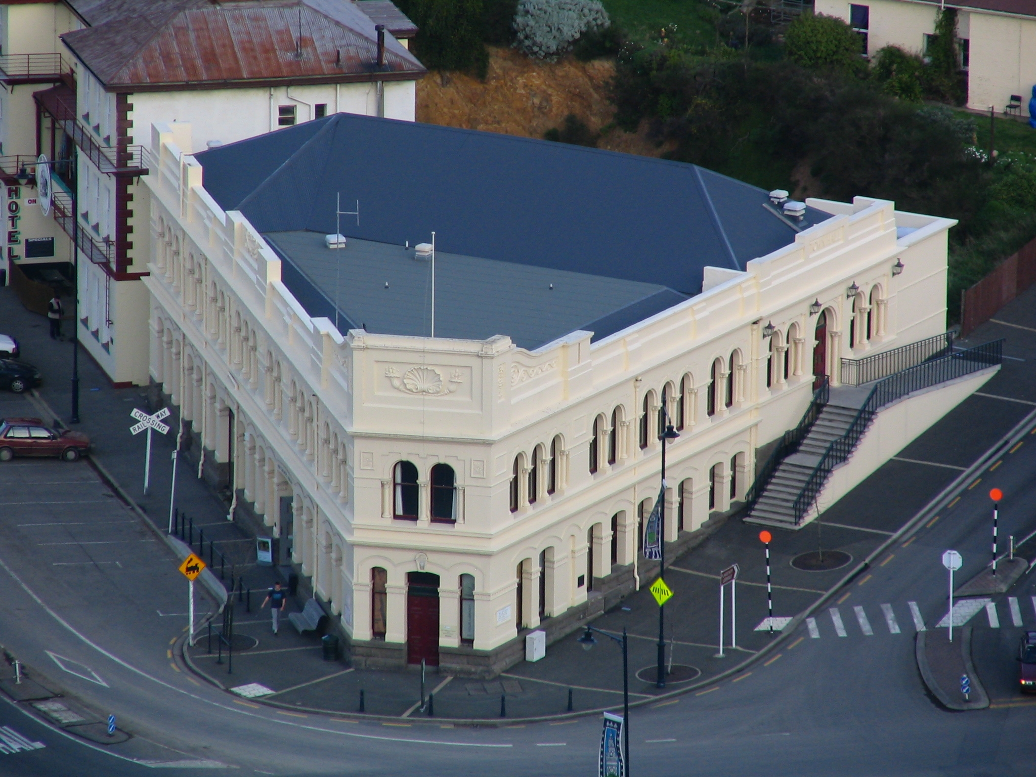 Port Chalmers Municipal Building, Port Chalmers, Dunedin, New Zealand. From Scott Memorial lookout.